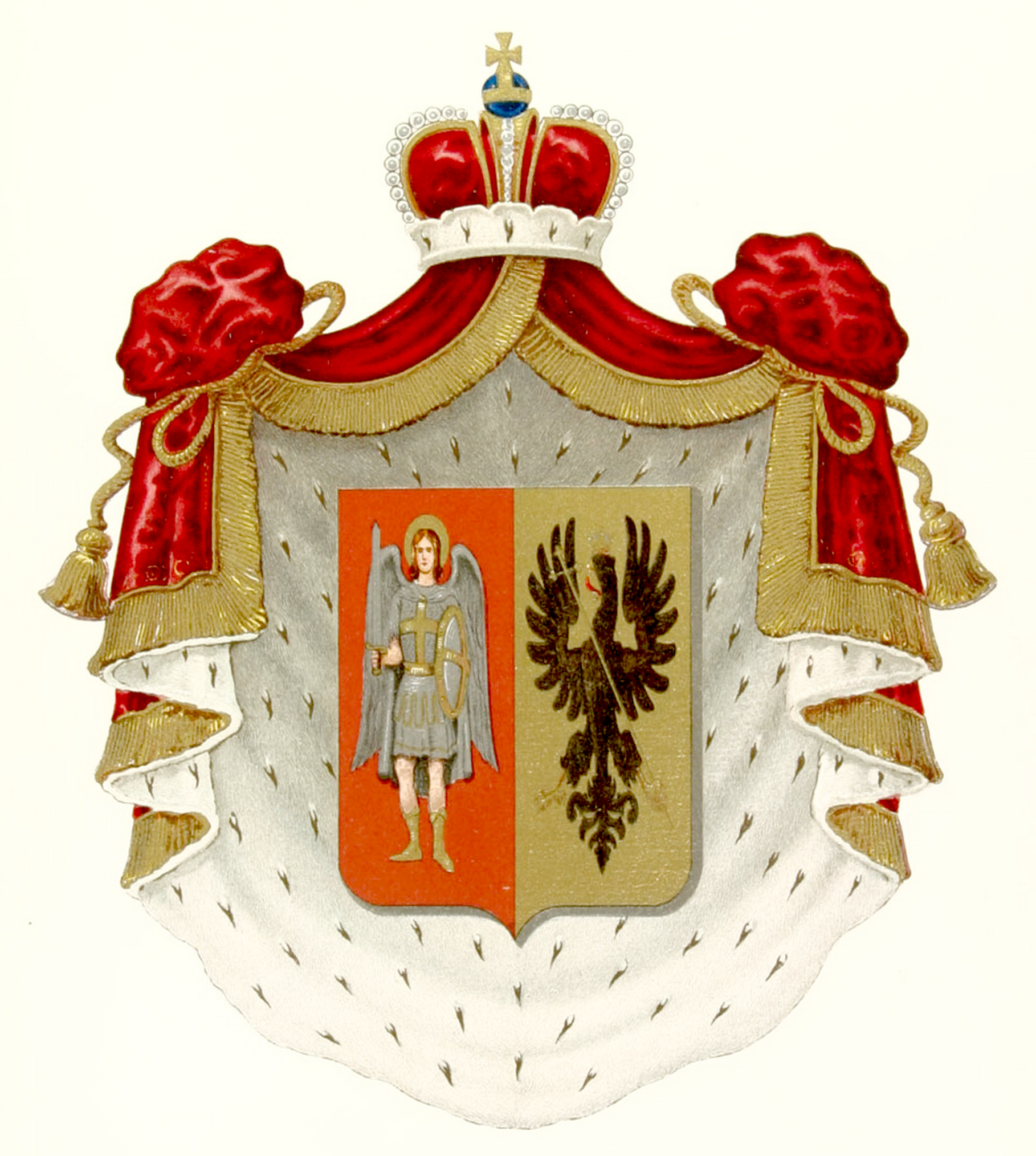 Coat of Arms of family Myshetski